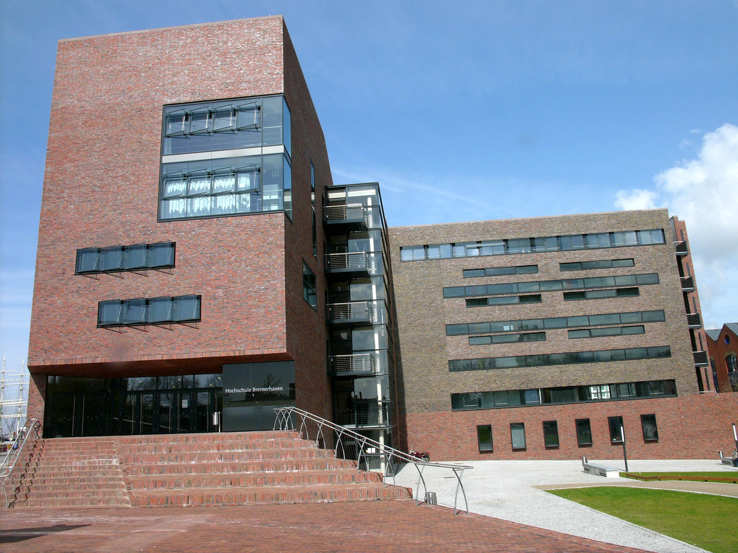 New building in 2004 of Hochschule Bremerhaven, Germany